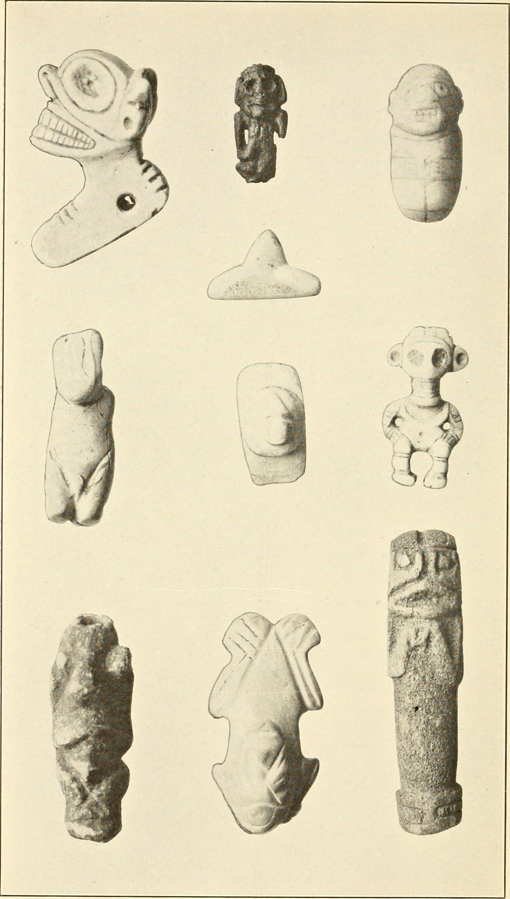 Title: Annual report of the Board of Regents of the Smithsonian Institution Year: 1846 (1840s) Authors: Smithsonian Institution. Board of Regents United States National Museum. Report of the U.S. National Museum Smithsonian Institution. Report of the Secretary Subjects: Smithsonian Institution Smithsonian Institution. Archives Discoveries in science Publisher: Washington : Smithsonian Institution Text Appearing Before Image: A SWALLOWING STICK FASHIONED FROM A RiB OF THE MANATEE This object was inserted in the throat to produce vomiting preparatory to purification ritesassociated with Taino religion. Smithsonian Report, 1929.—Krieger PLATE 12 Text Appearing After Image: Zemis Carved from stone, Shell, Wood, and Bone. From VariousParts of Santo Domingo Smithsonian Report, 1929.—Krieger PLATE 13